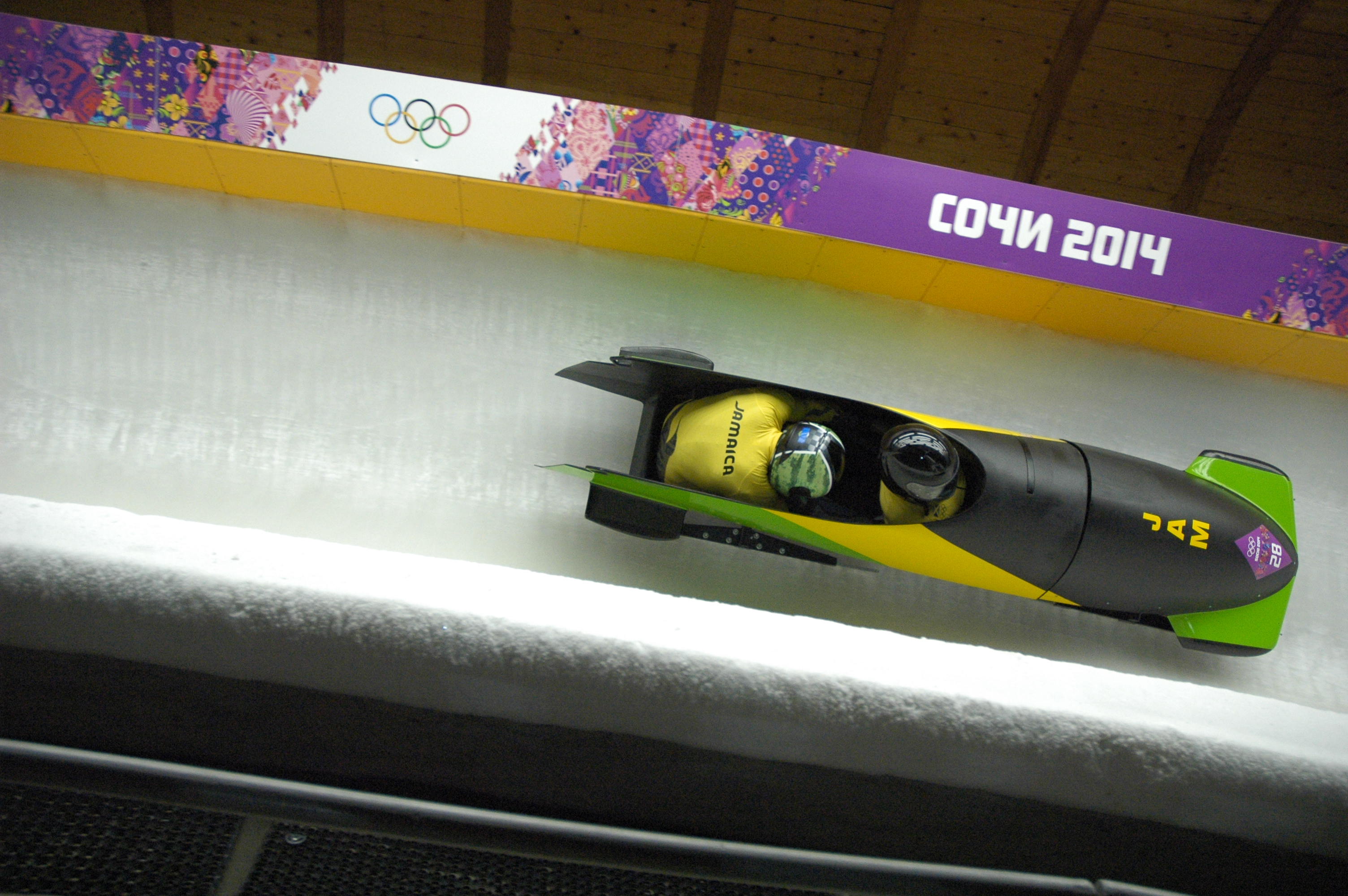 Two-man bobsleigh, 2014 Winter Olympics, Jamacia run 3